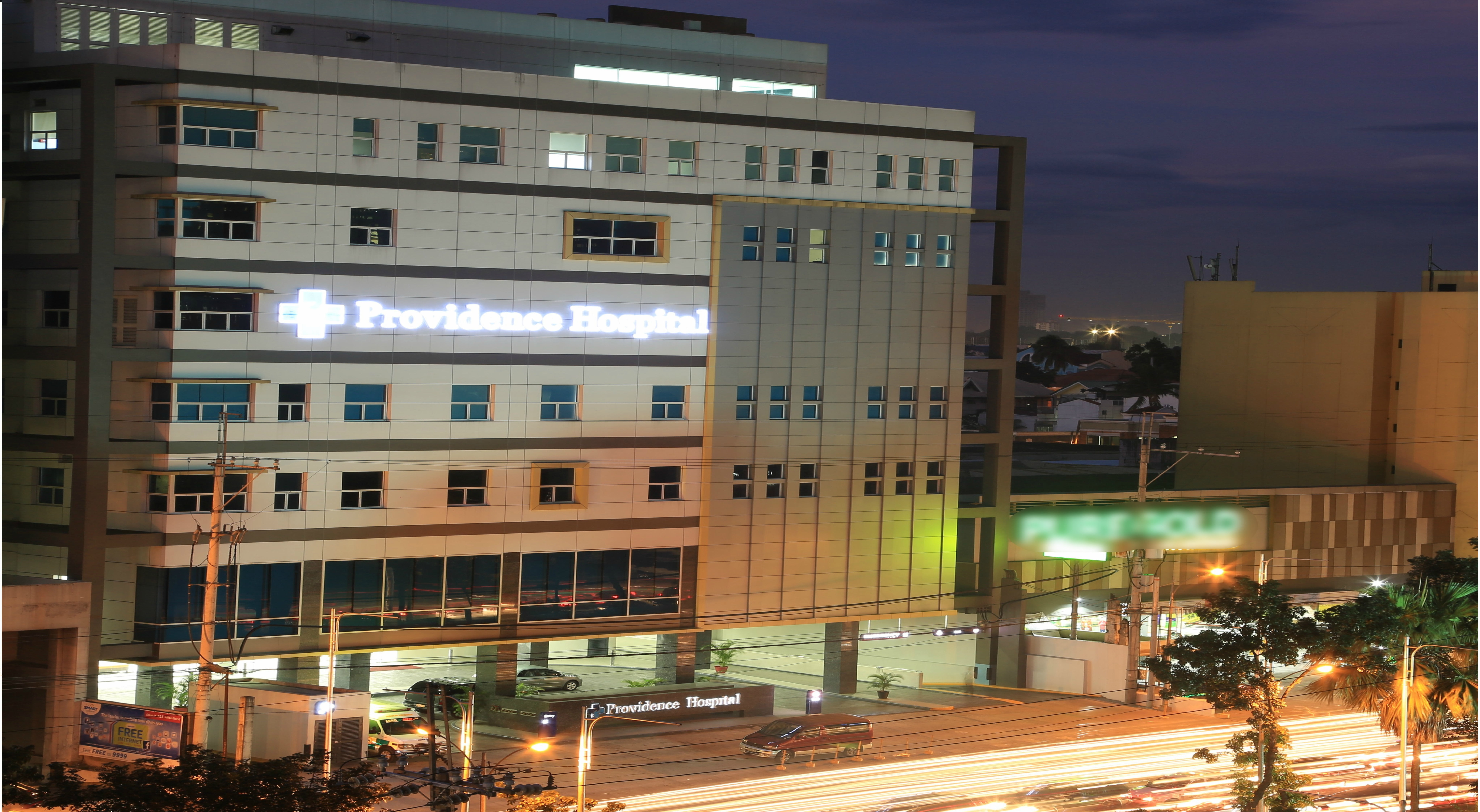 Providing excellent and quality care.